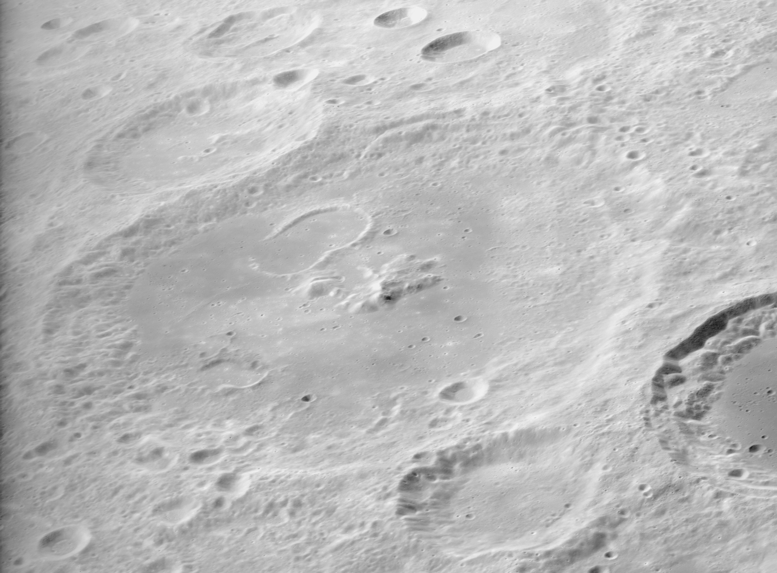 Oblique view of Joliot crater, on the moon, facing northwest. Lyapunov is in upper left, and part of Lomonosov is in lower right.